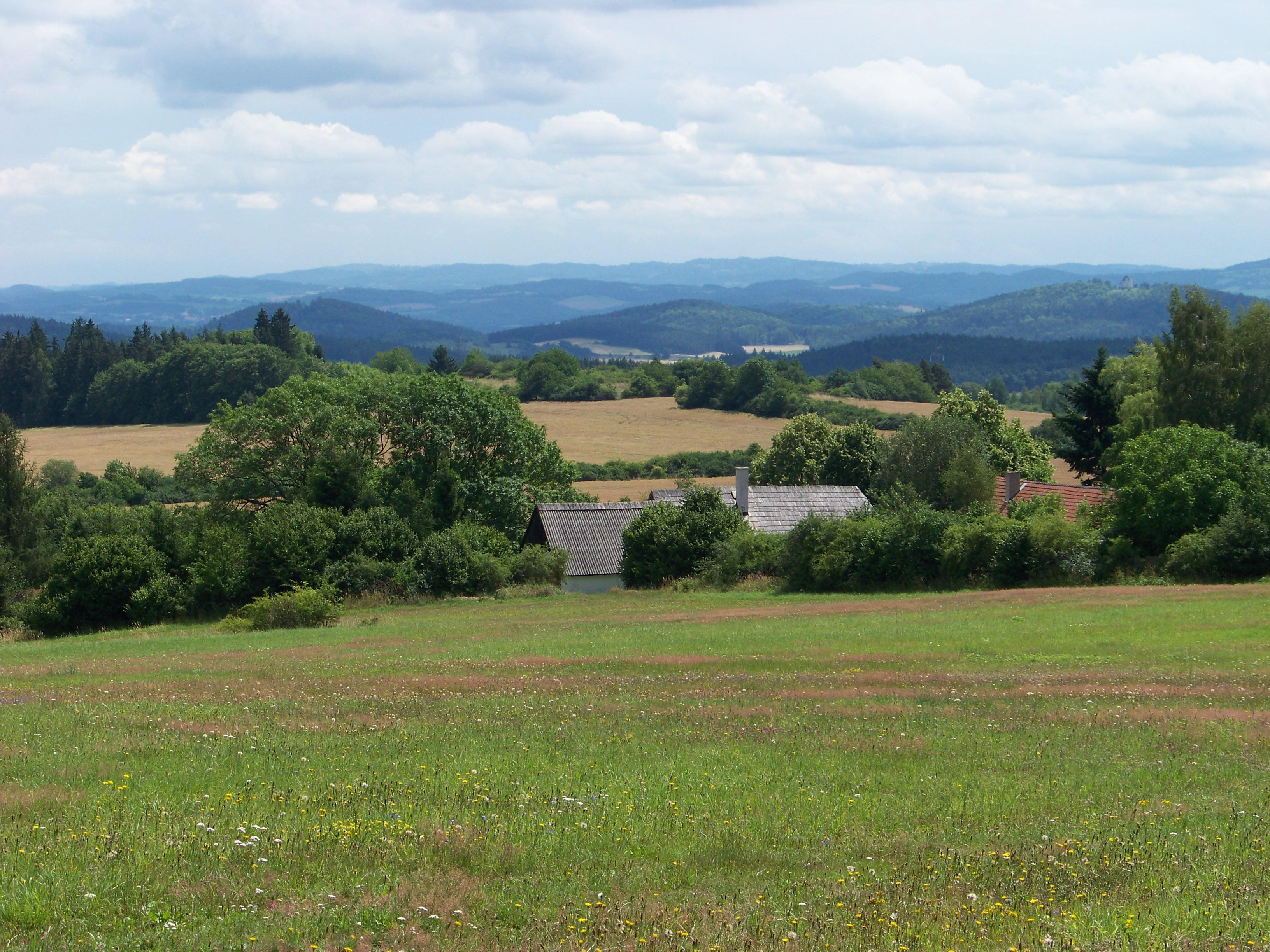 Radětice-Palivo, Příbram District, Central Bohemian Region, the Czech Republic. - OpenStreetMap(Info)